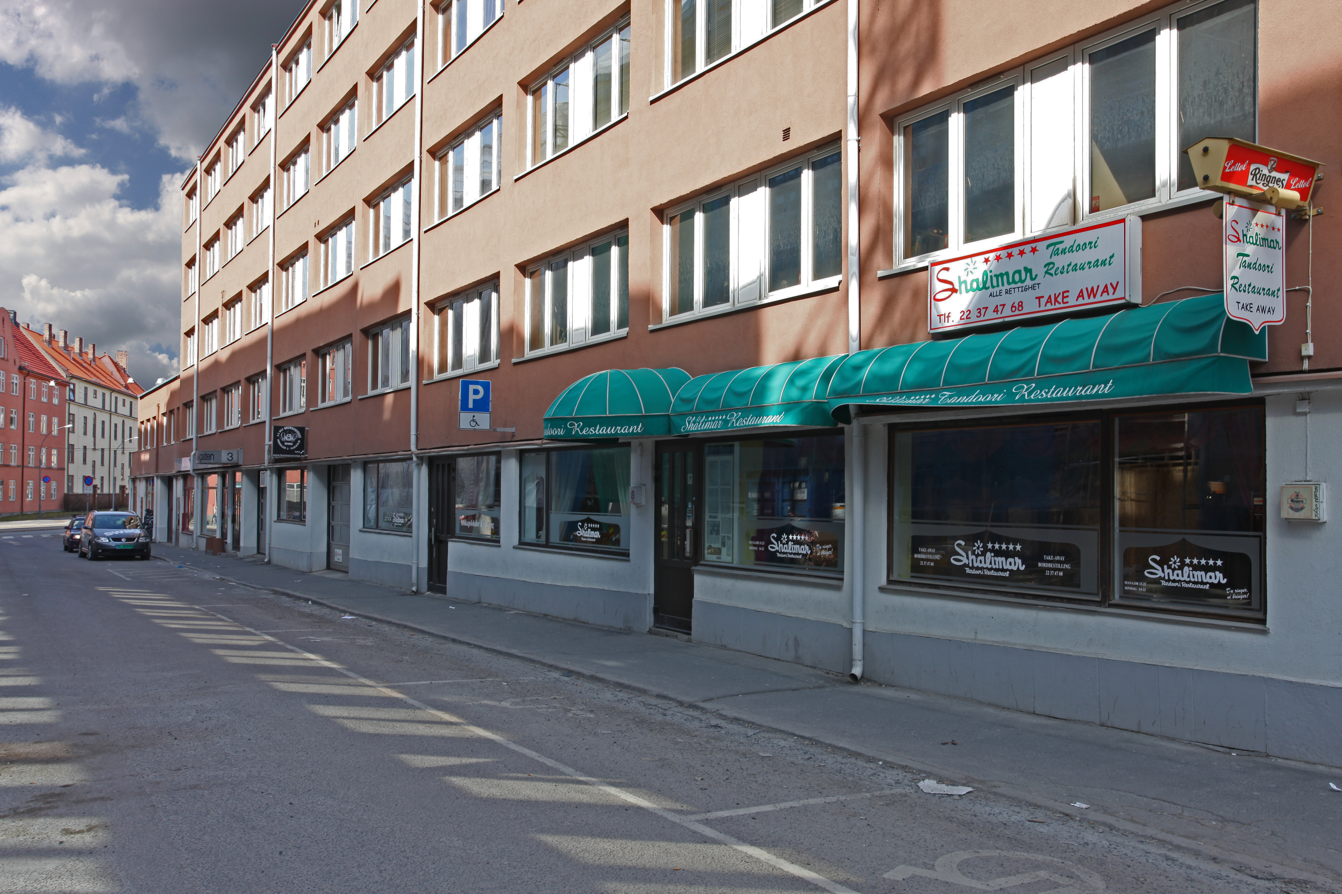 Picture of Konghellegata (Oslo - Norway)